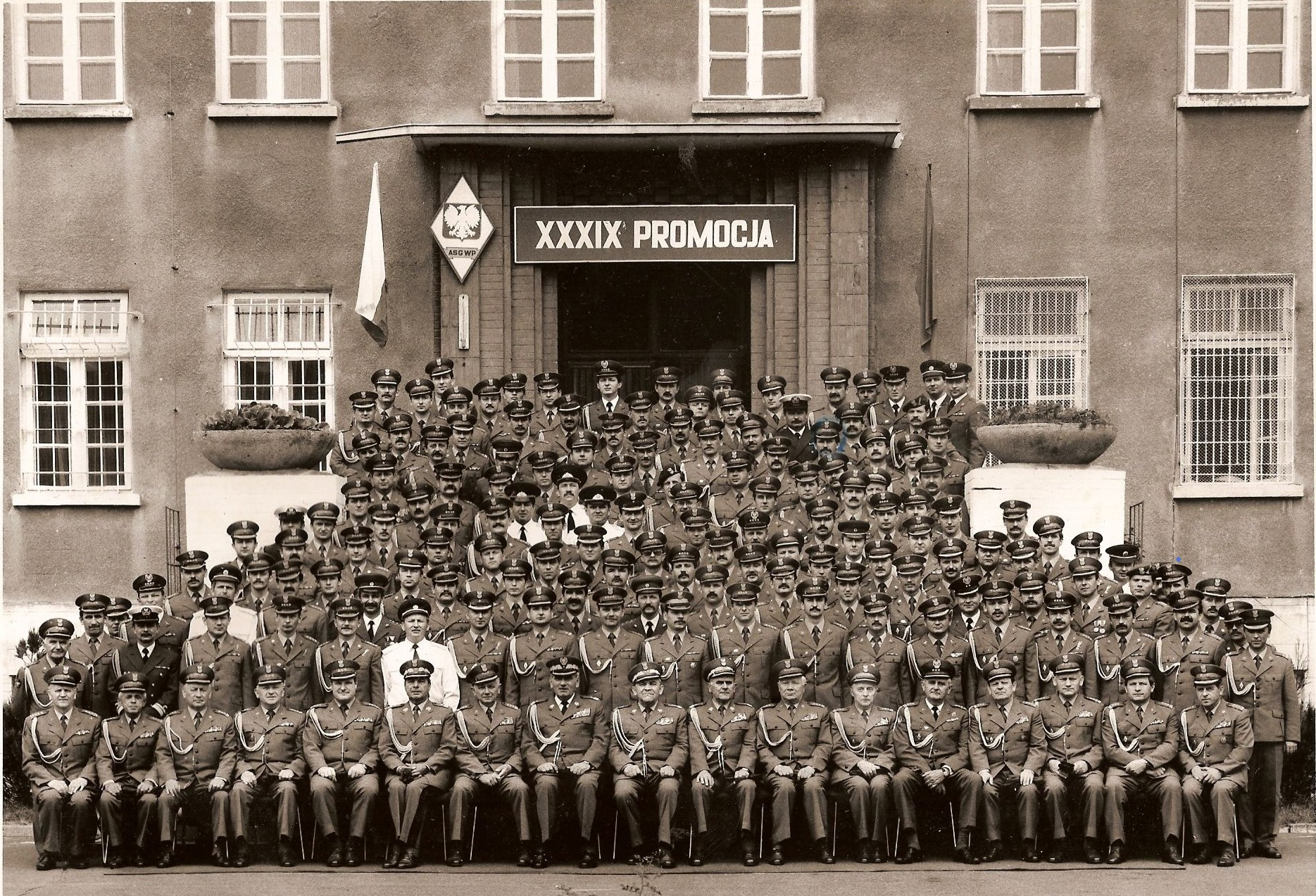 39th age-group graduates from the General Staff College of the Polish Armed Forces in Warsow.